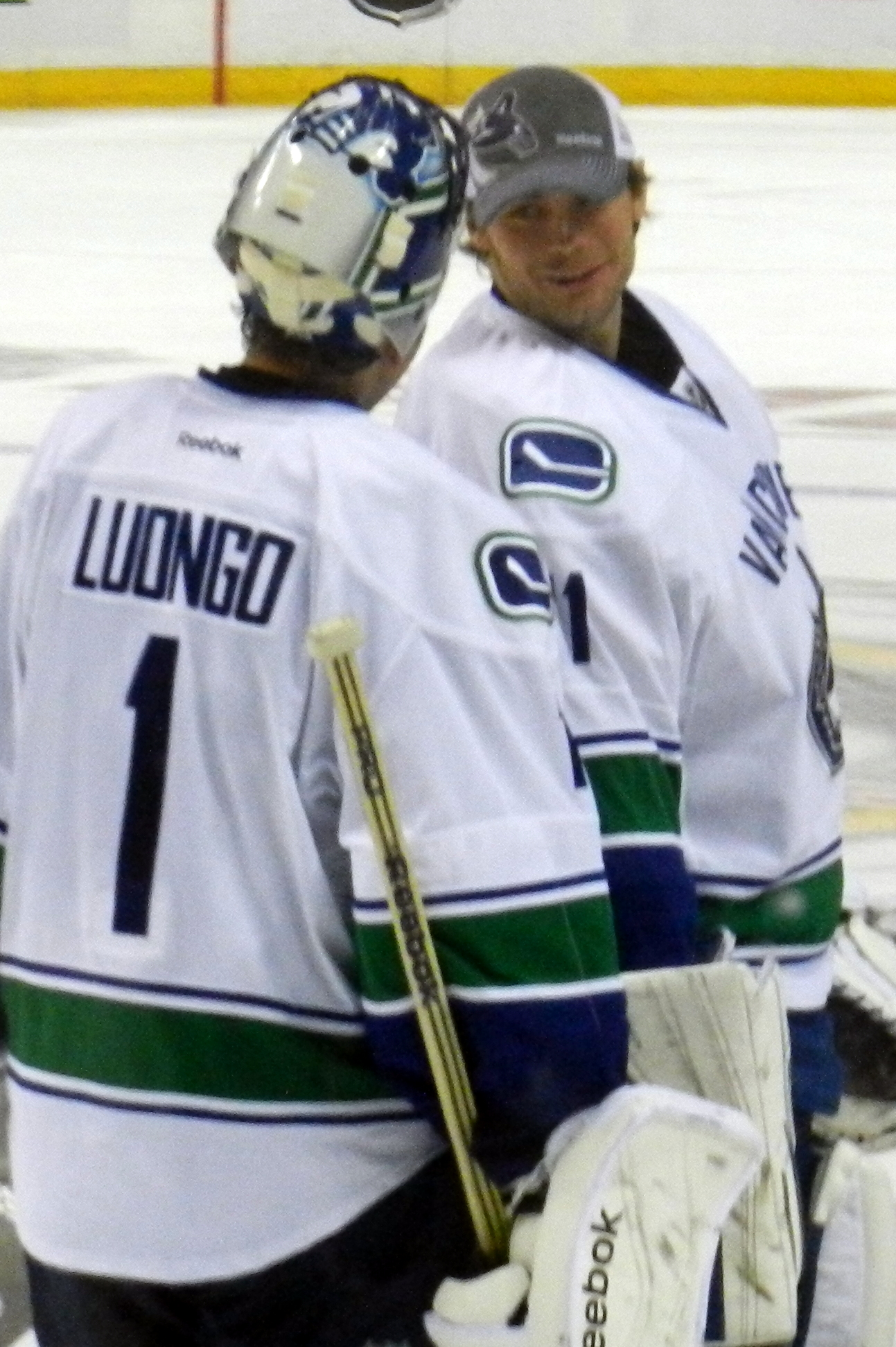 Eddie Lack talks with Roberto Luongo following a Vancouver Canucks game